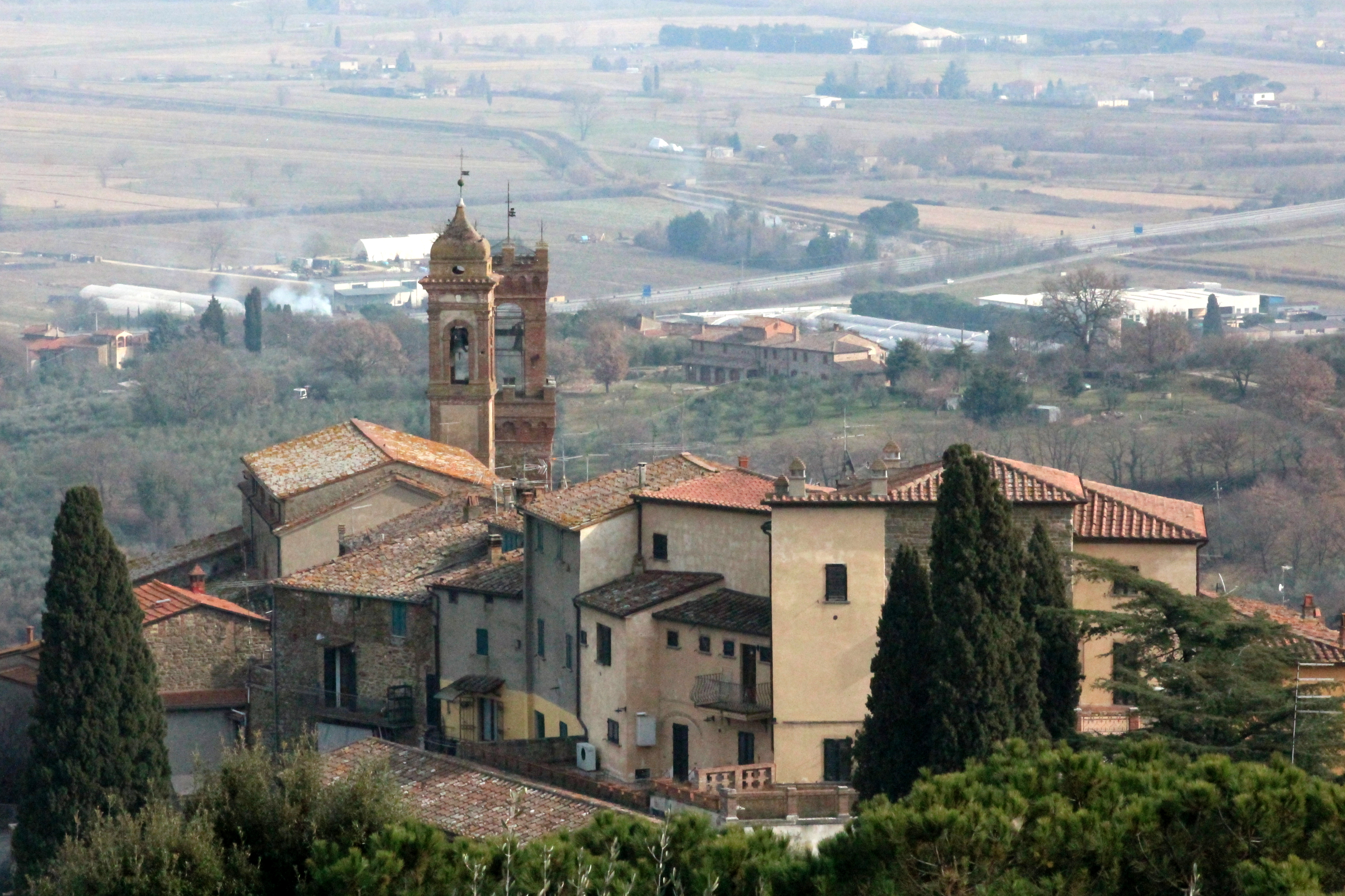 Panorama of Scrofiano, hamlet of Sinalunga, Valdichiana, Province of Siena, Tuscany, Italy